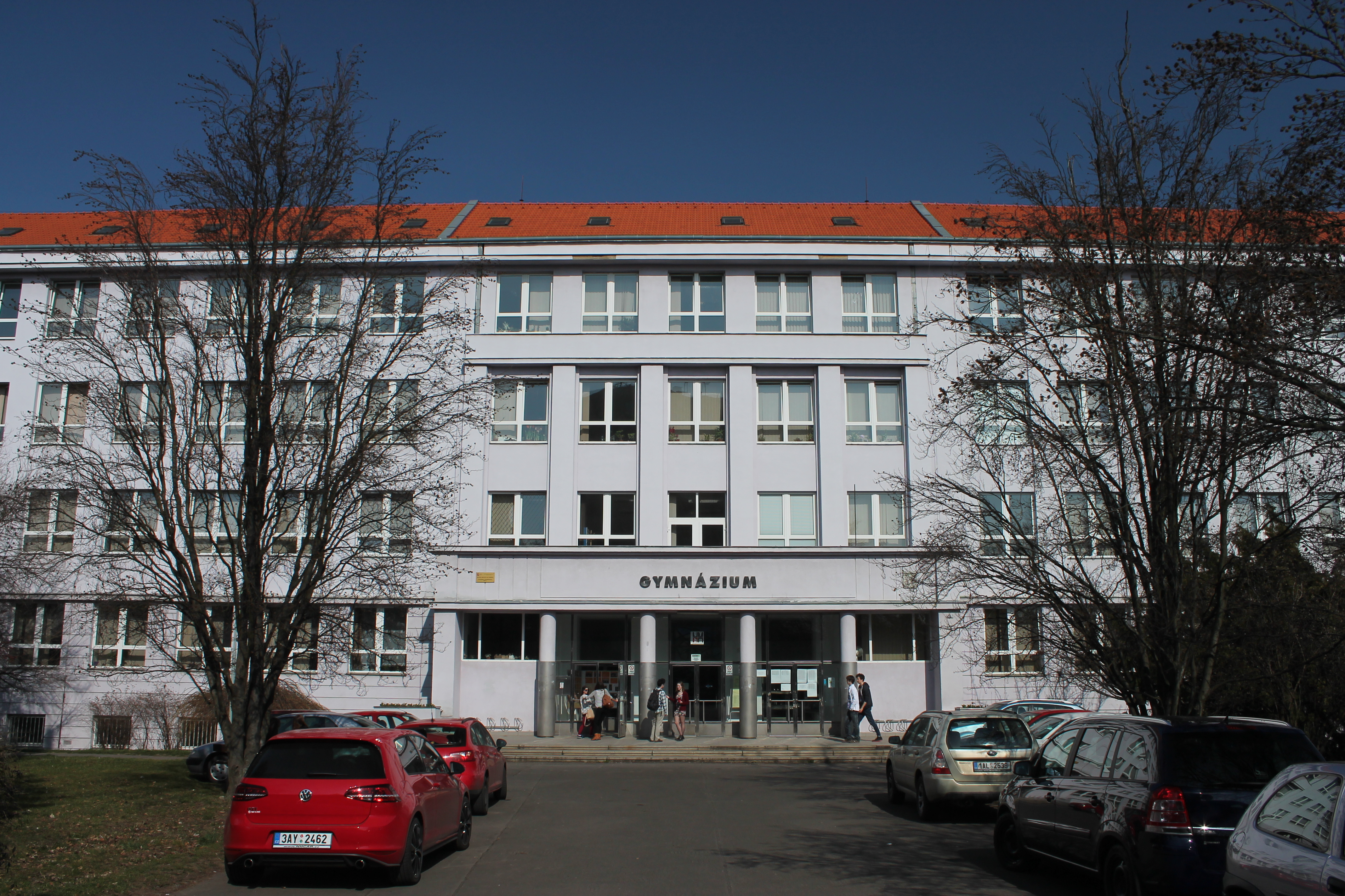 Gymnázium Budějovická, Prague